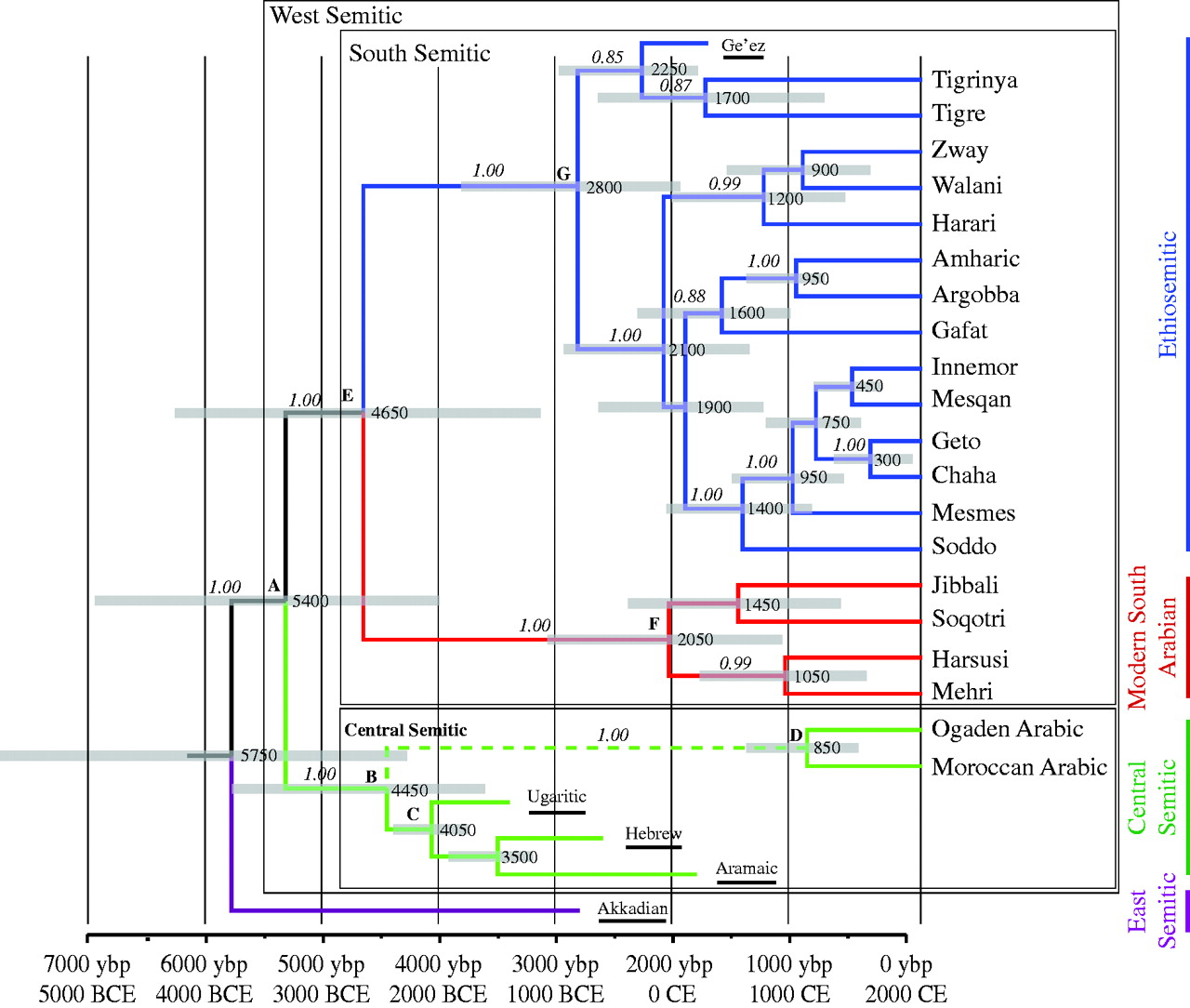 Semitic Languages Geneology